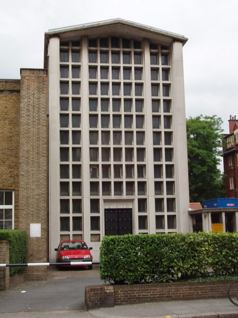 Chapel of Allen Hall seminary. and 835803 for details. Allen Hall was formerly the Convent of Marie Réparatrice.